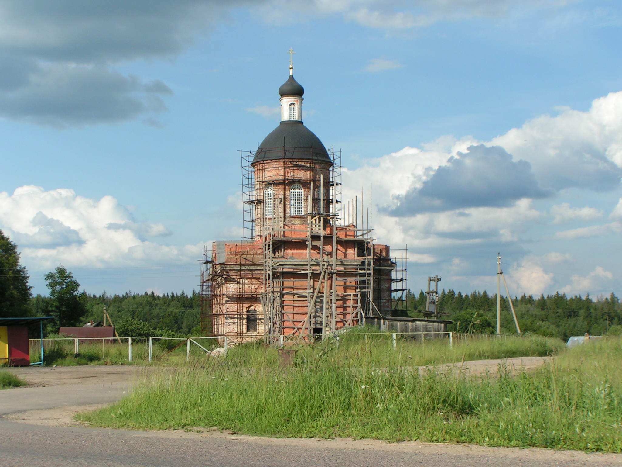 Nikolskoye (Klinsky District of Moscow Oblast), Church of Saint Nicholas the Wonderworker (1738-1758).